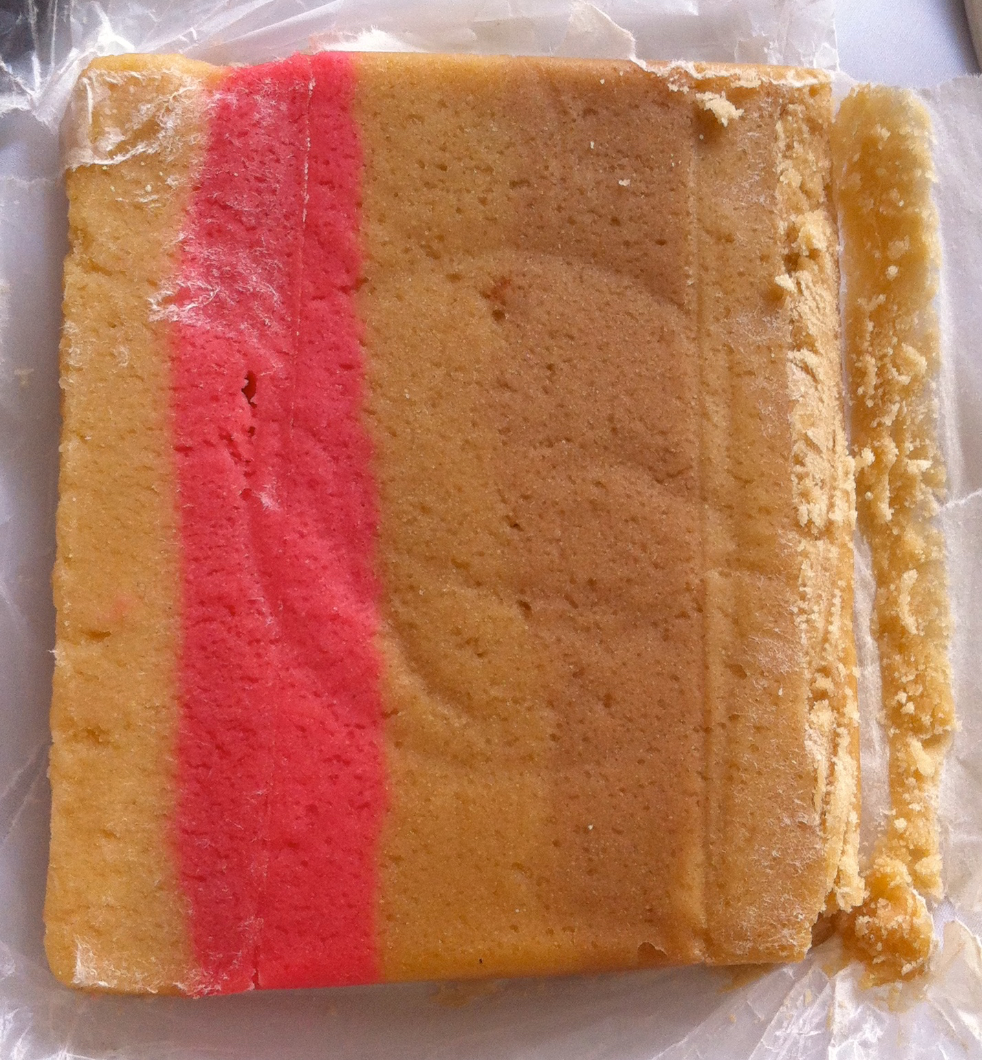 Haitian Fudge Kreyòl ayisyen : Dous Makos